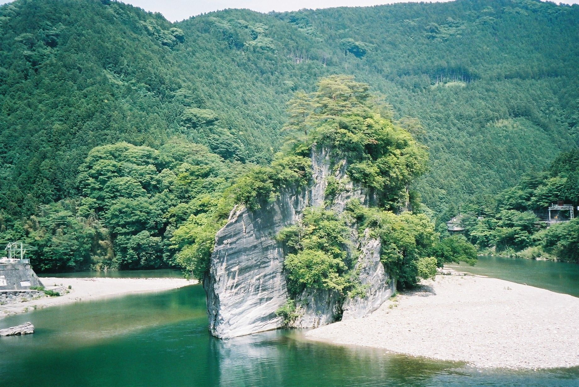 Mimidodake